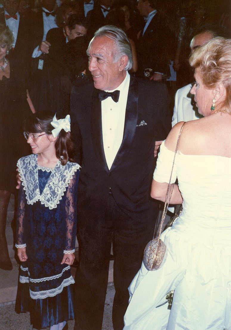 Anthony Quinn exits the theater after the 40th Annual Primetime Emmy Awards, 8/28/88